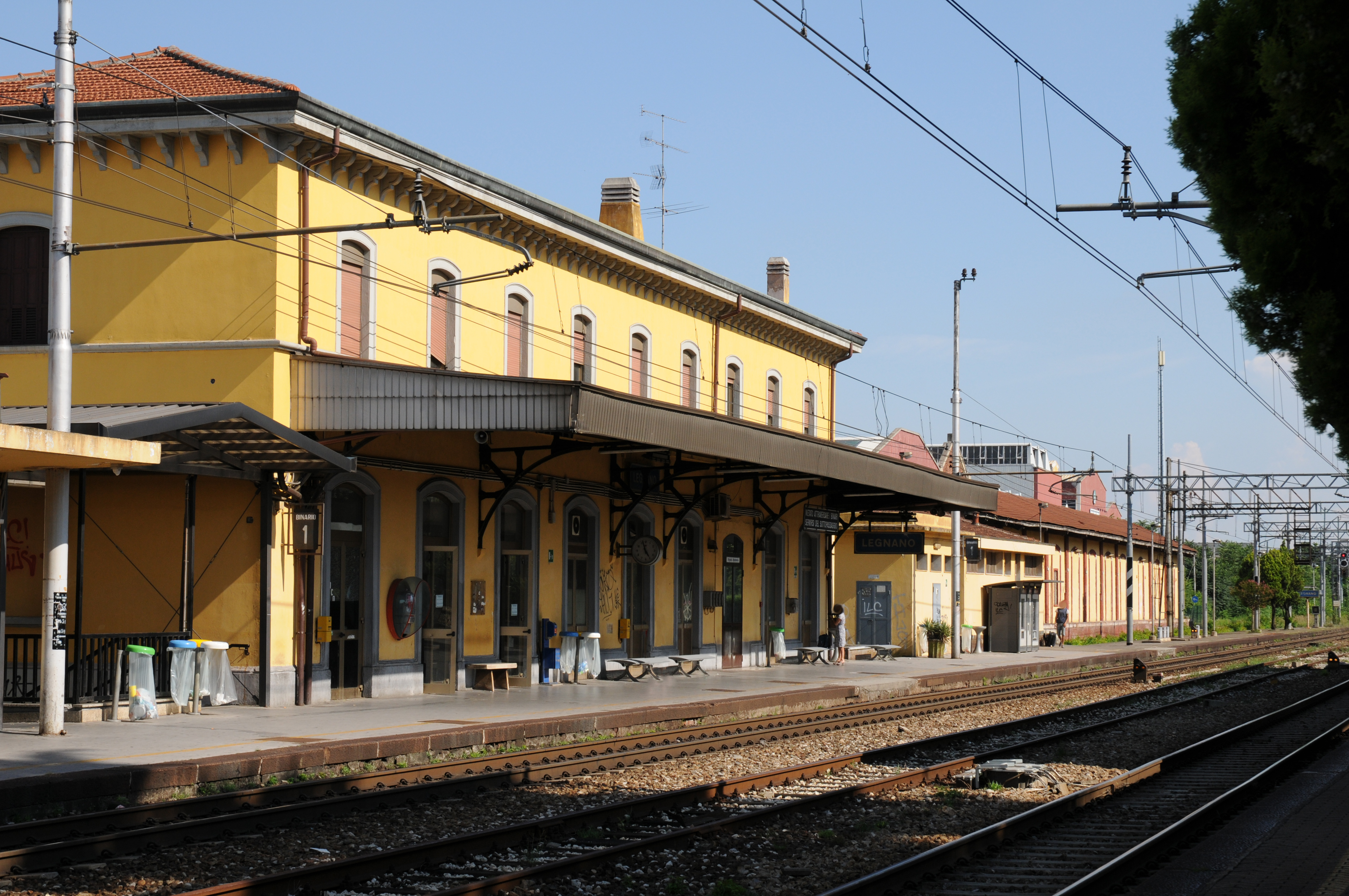 Railway station in Legnano (Italy)